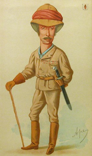 Caricature of Garnet Wolseley.